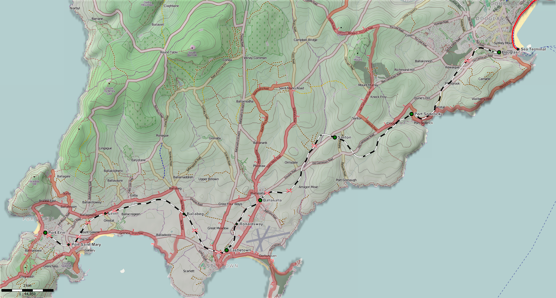 Isle of Man Railway.